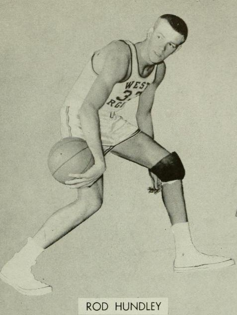 Photograph of West Virginia University basketball player "Hot Rod" Hundley